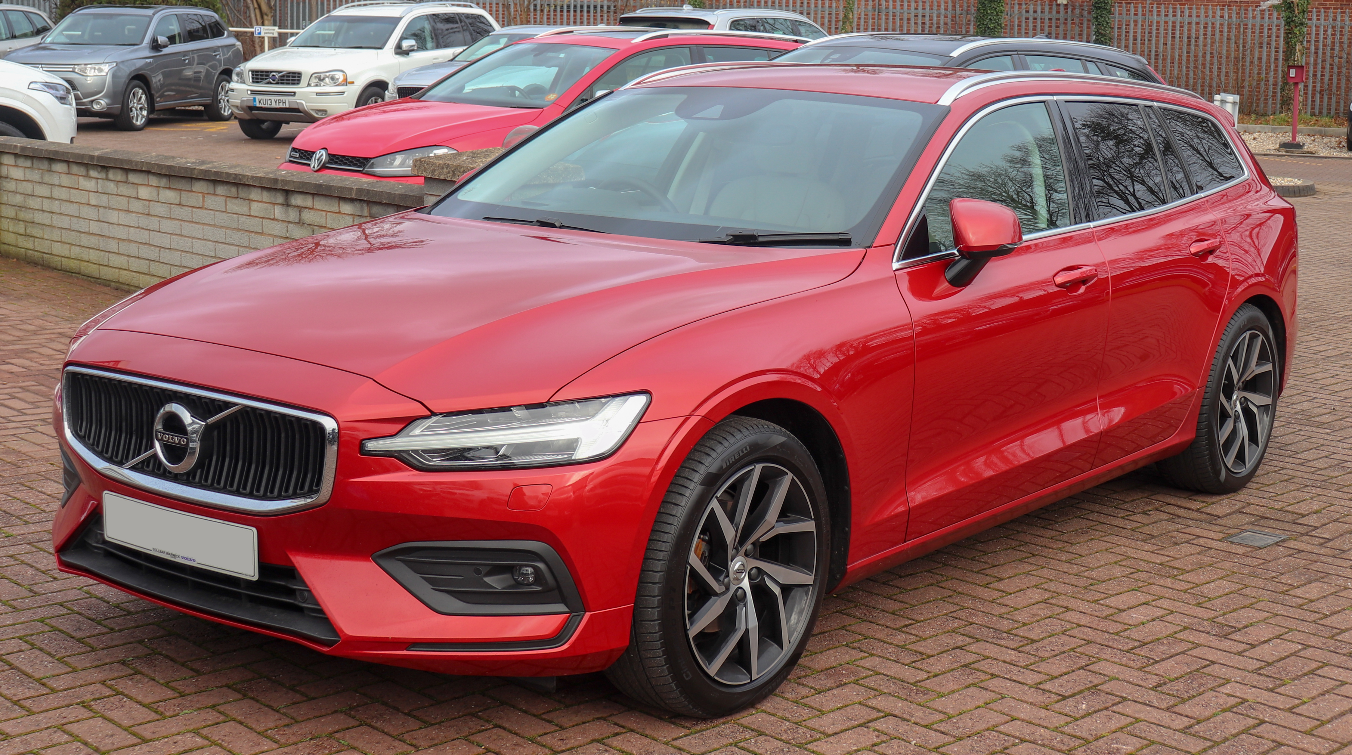 2018 Volvo V60 Momentum PRO D4 Automatic 2.0 Front Taken in Leamington Spa